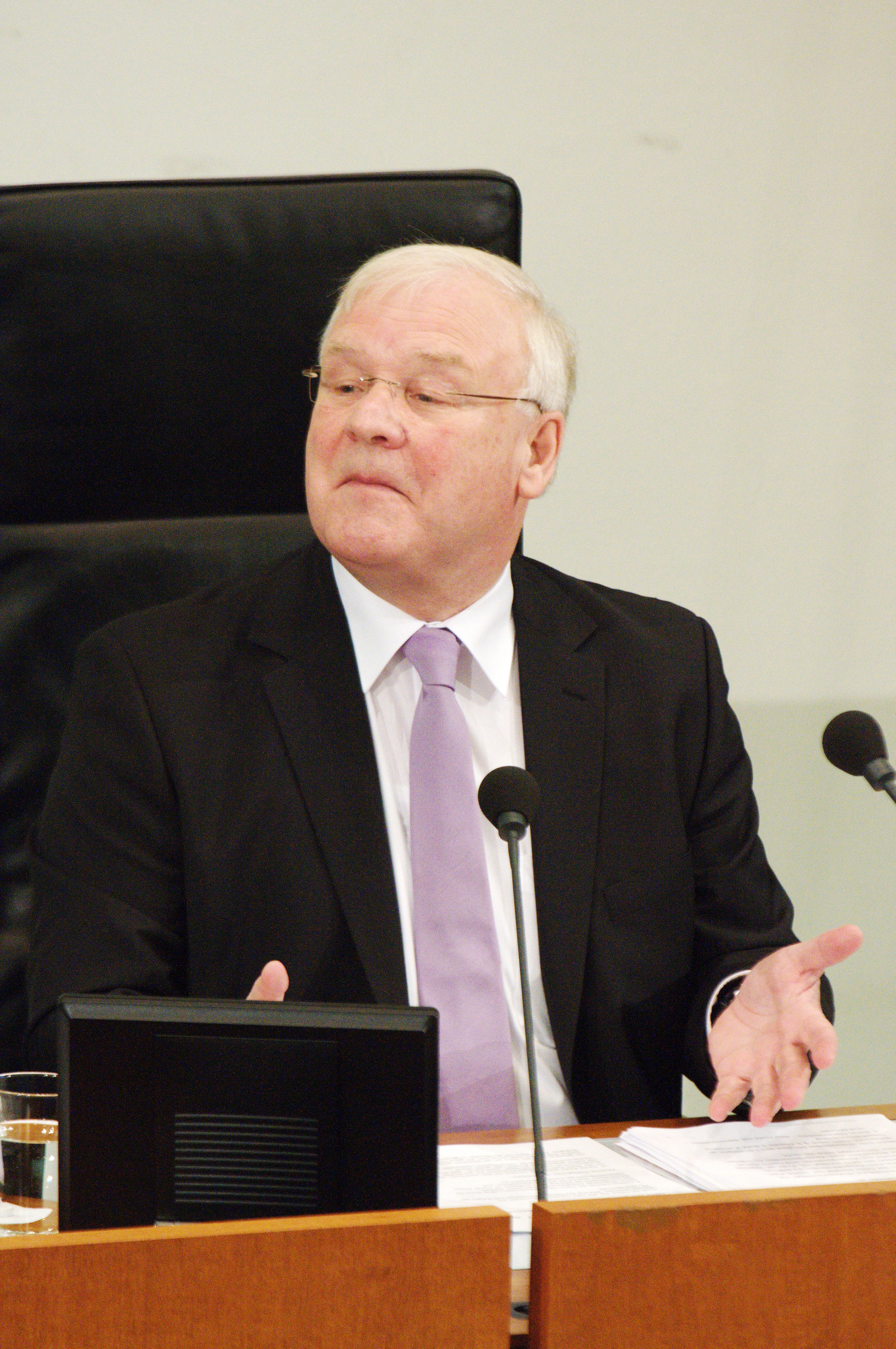 Wikipedia im Landtag – Niedersachsen 19. Februar 2013 in HannoverDieses Bild entstand während der Konstituierende Sitzung des Landtages Niedersachsen 2013 im Landtag Hannover. This work is free and may be used by anyone for any purpose. If you wish to use this content, you do not need to request permission as long as you follow any licensing requirements mentioned on this page.